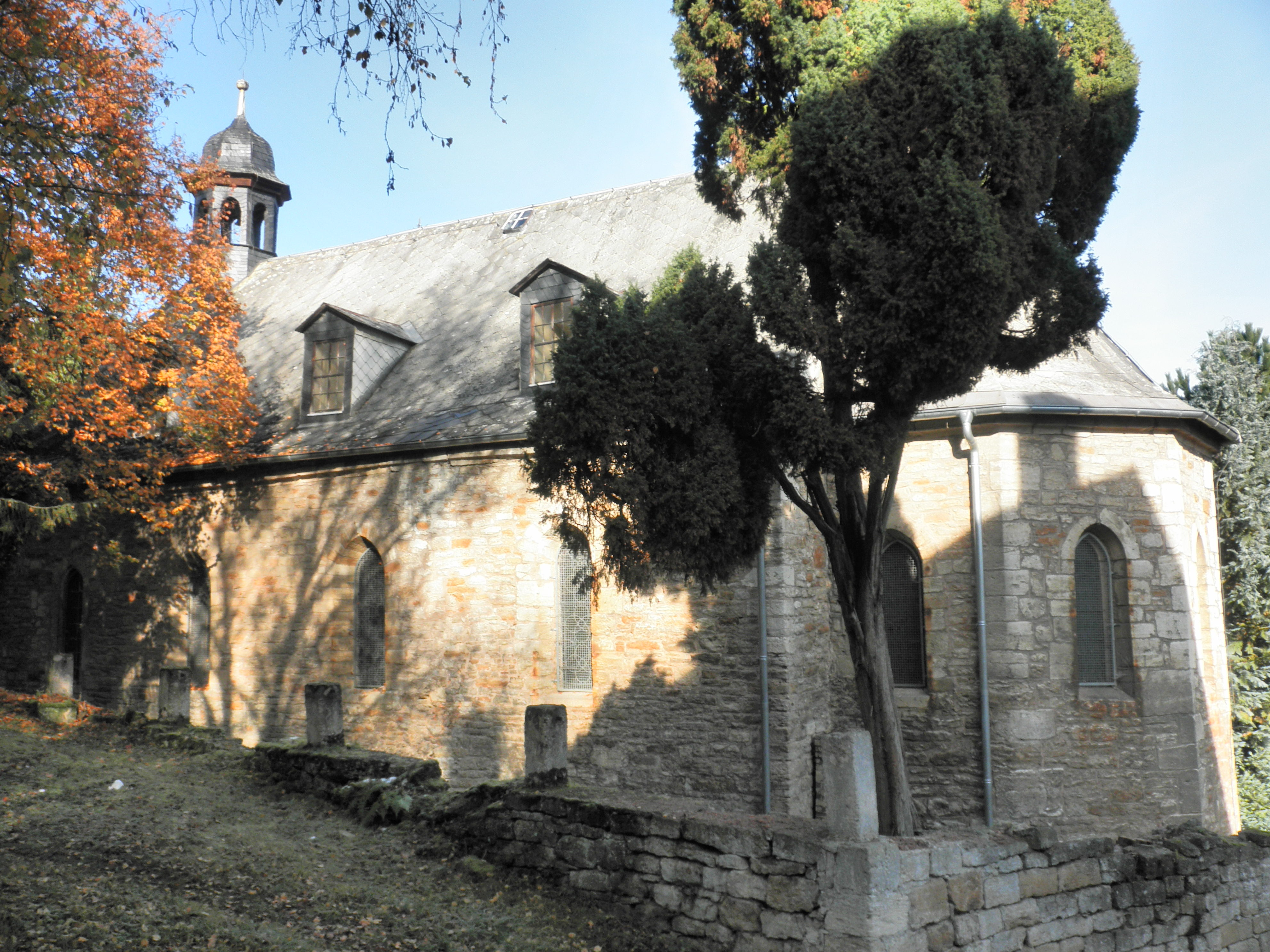 Church in Bellstedt in Thuringia